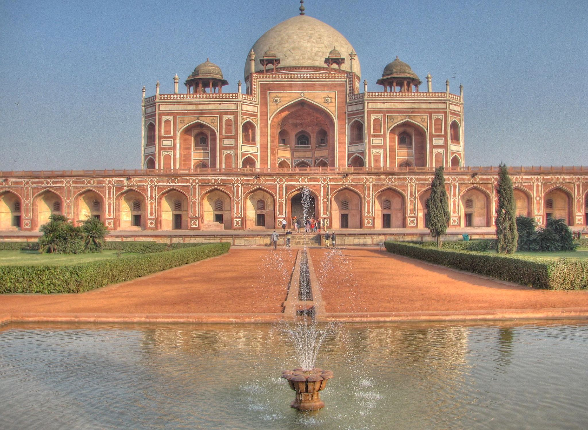 Fountain at the centre of the Charbagh garden, surrounding Humayun's Tomb, Delhi.